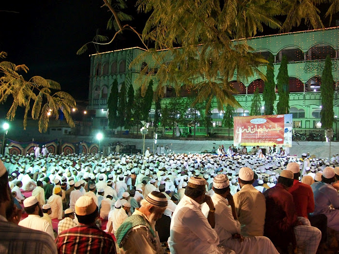 Urs mubarak of Noorul Mashaik at Hyderabad Noori Maskan